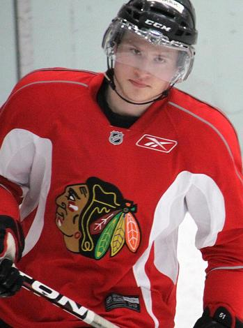 Mark McNeill on the ice at the 2011 Blackhawks prospect camp, July 2011